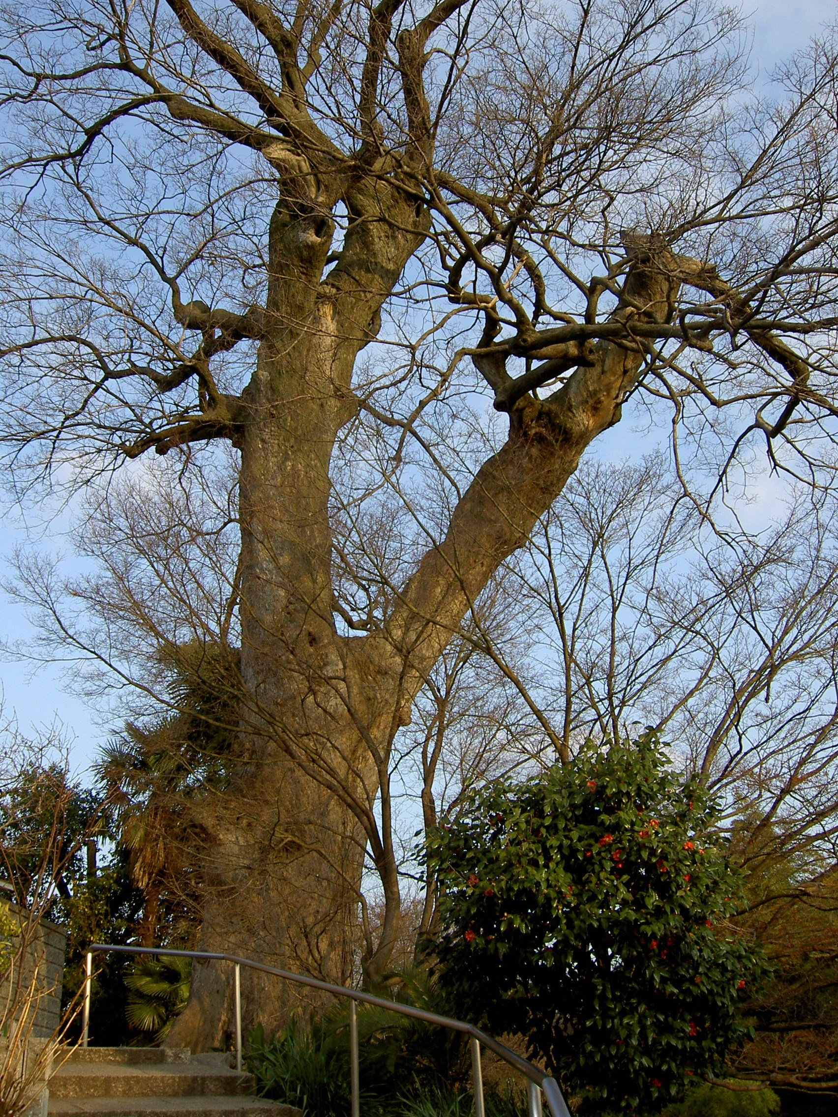 Hirakata Tanaka tei no muku. Aphananthe aspera of Tanaka's house in Hirakata. 3-13, Hirakatakaminocho, Hirakata-shi, Osaka, Japan.